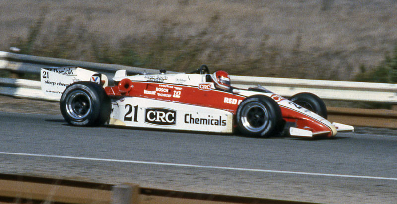 Al Holbert drove a March 84C-Cosworth in the 1984 CART IndyCar race at Laguna Seca.